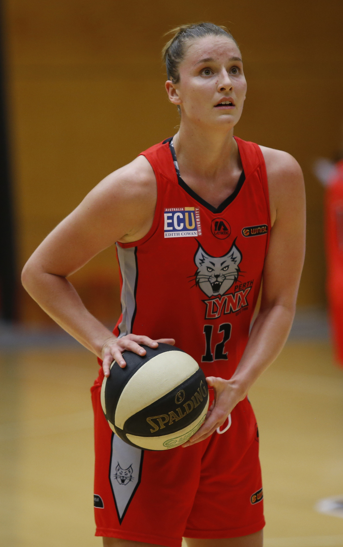 Kayla Standish in action for the Perth Lynx.